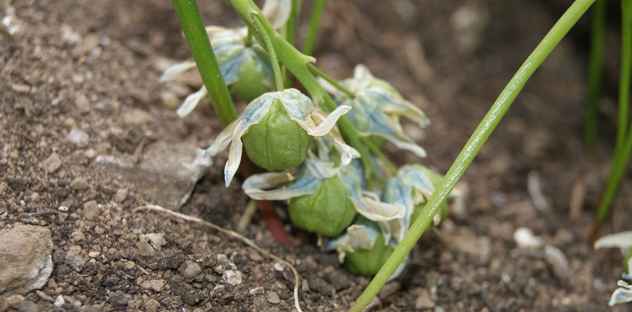 Puschkinia scilloides